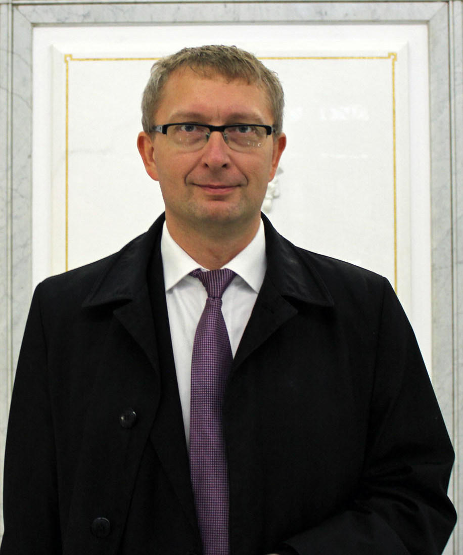 Wer dieses Bild benutzen möchte, der möge bitte den Link auf seiner Seite einbinden. If you want to use this picture, please implement the link on the website containing the picture.